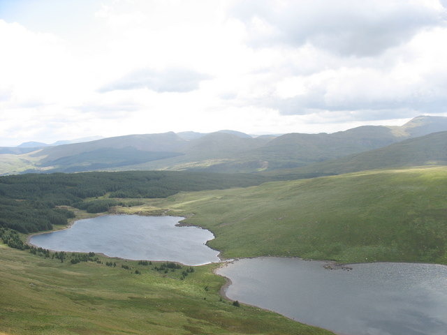 Llynnau Diwaunydd - Infilling Process. This view shows the increasing separation of the two lakes and build-up of stream-bourne deposits to form growing deltas at a number of places.